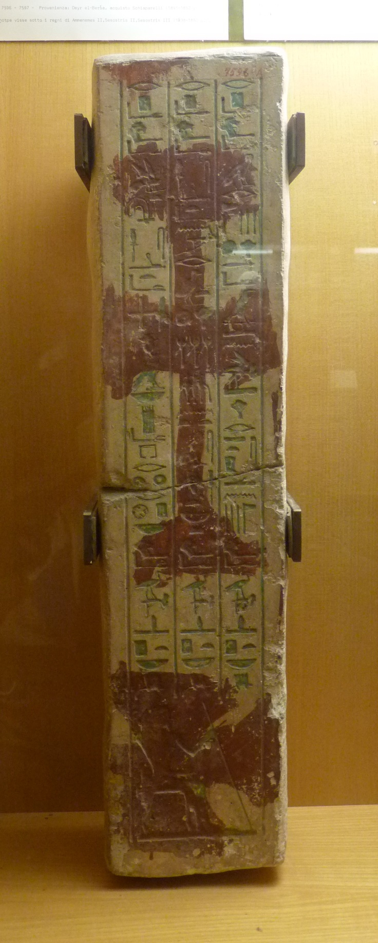 Limestone jamb from the tomb of Djehutihotep, nomarch of the 15th district of Upper Egypt (Hare) under Amenemhat II, Senusret II and Senusret III (12th dynasty). The inscriptions are a list of Djehutihotep civic and religious titles of the owner; Djehutihotep himself is depicted in the bottom. The object has been vandalised in the Christian era (red crosses). From Deir el-Bersha; Schiaparelli bought the two jambs in 1891-92. Florence, Museo archeologico nazionale, Inv. n. 7596.